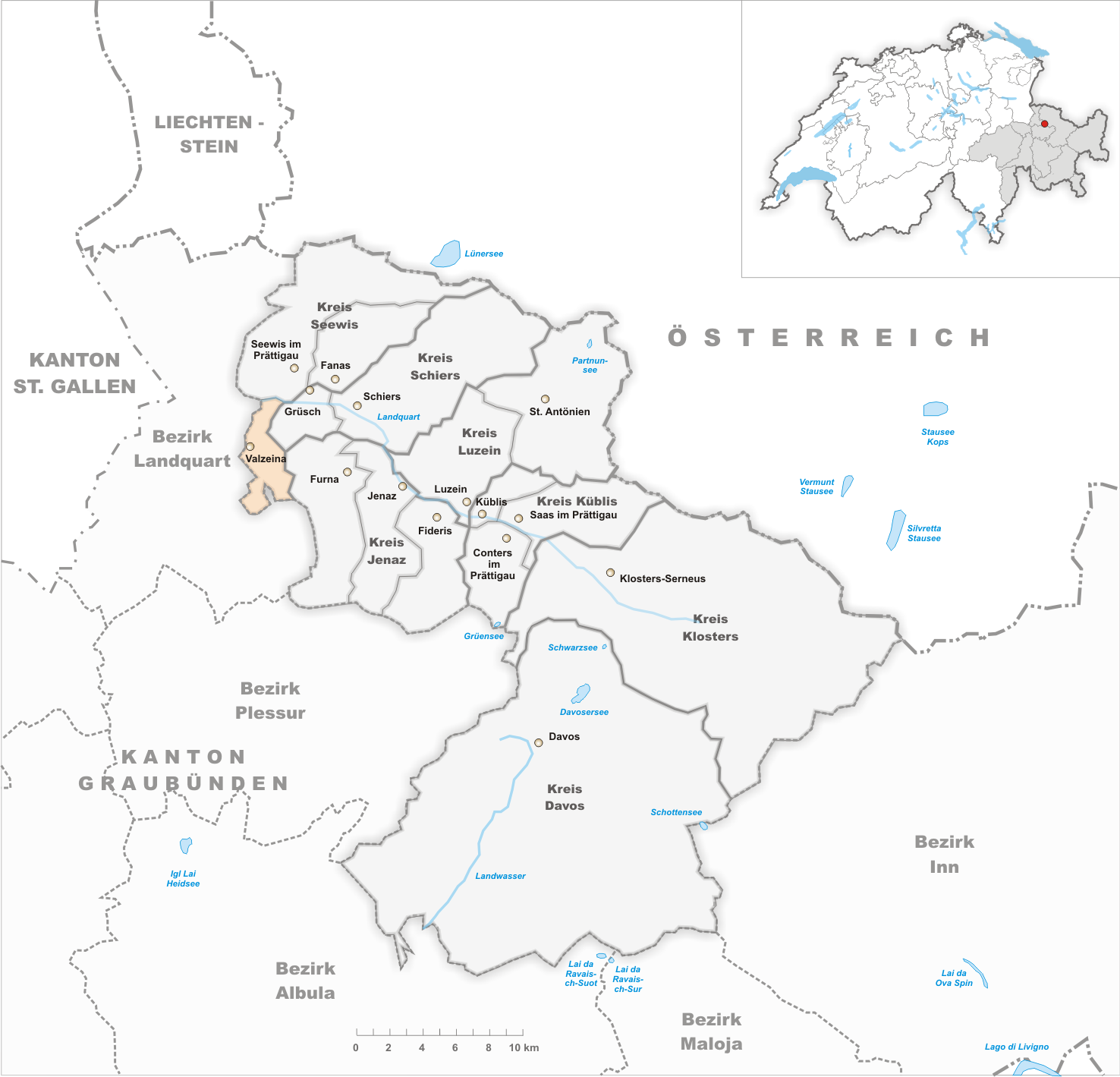 Municipality Valzeina